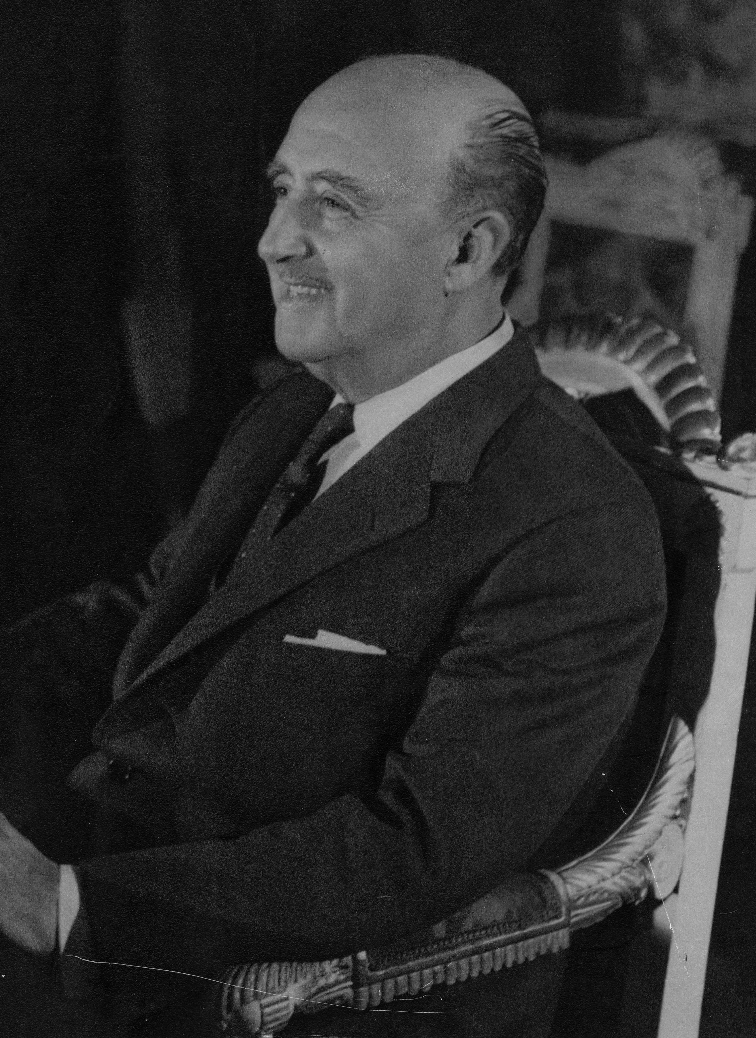 Retrato fotográfico del general Franco